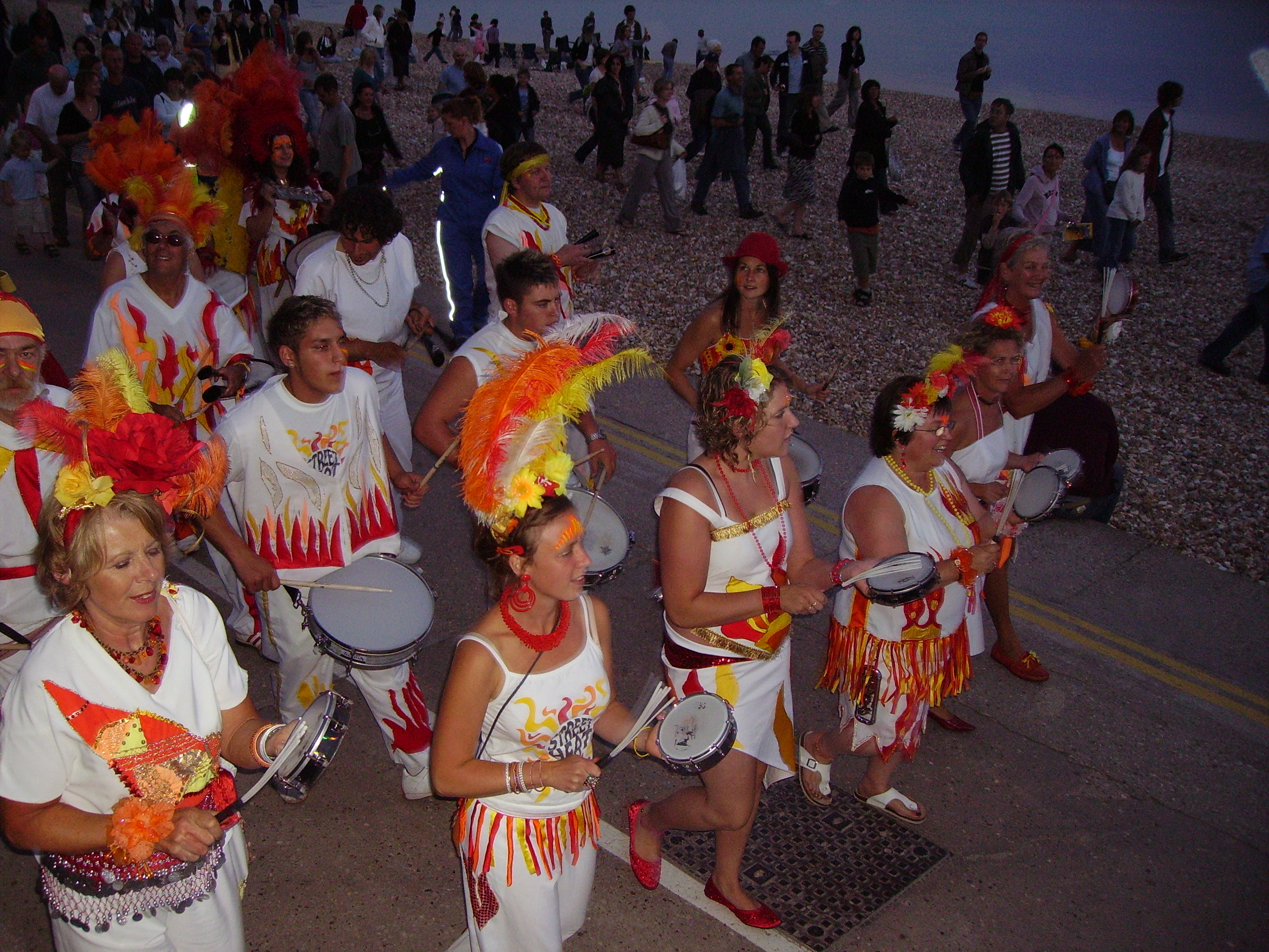 Photographer: User:Ballista